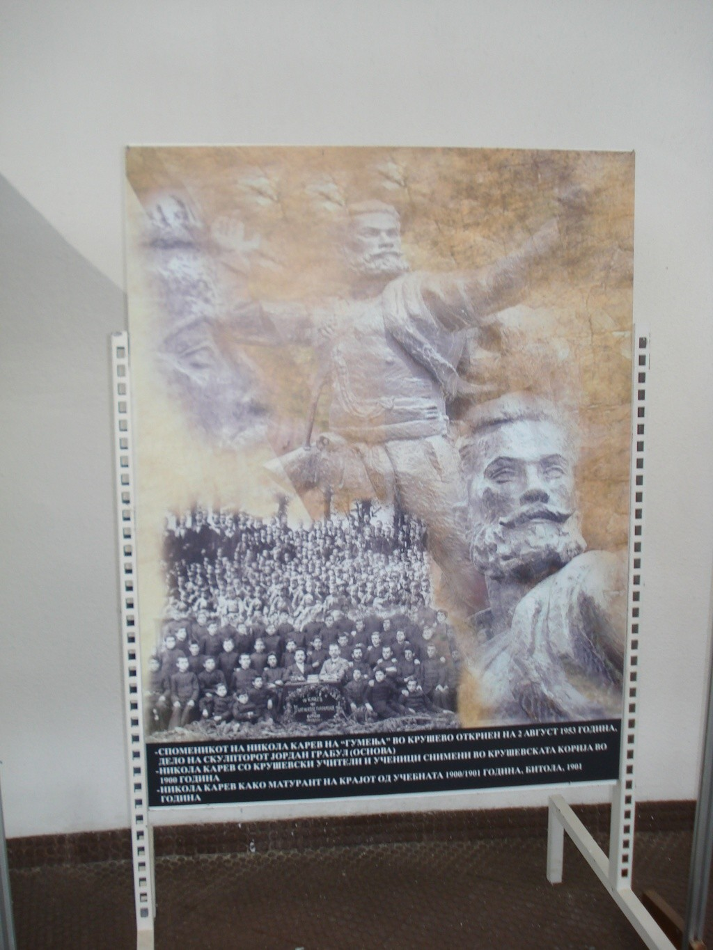 A panel from the Ilinden memorial in Kruševo, showing the monument of Nikola Karev at "Gumenje" in Kruševo, uncovered on August 2, 1953, and two photographs: Nikola Karev with Kruševo teachers and students photographed in 1900 in the Kruševo grove and Nikola Karev with the 1900-1901 graduates from the Gymnasium in Bitola.